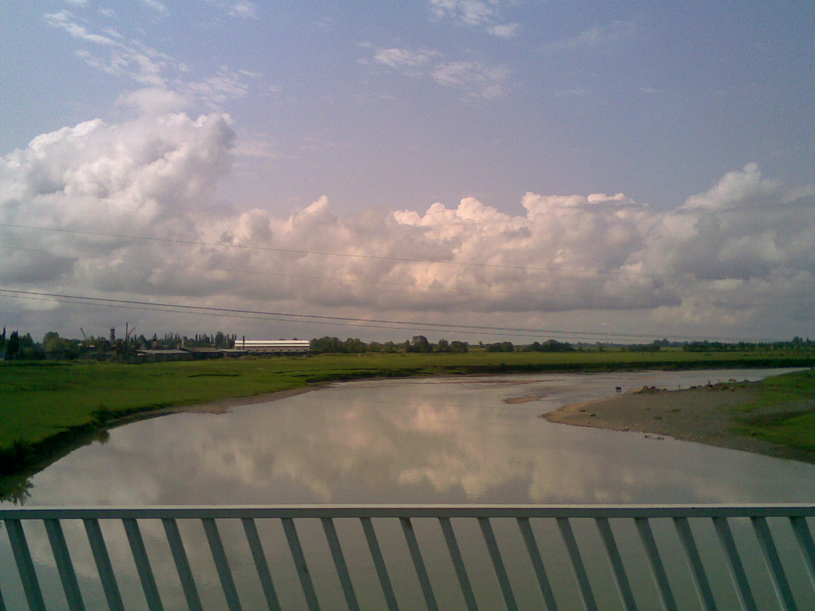 Khobistskali River